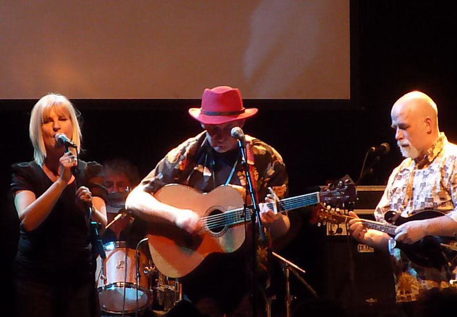 Photograph of Eleanor Shanley, Paul Kelly and Frankie Lane performing in concert in Dublin, Ireland, May 2011, taken by me.